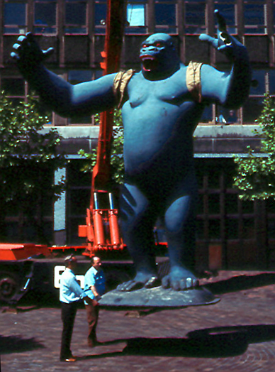 Nicholas Monro's statue of King Kong temporarily visits Birmingham School of Architecture's Gosta Green campus. Cropped from File:Nicholas Monro's King Kong statue in original colours.jpg